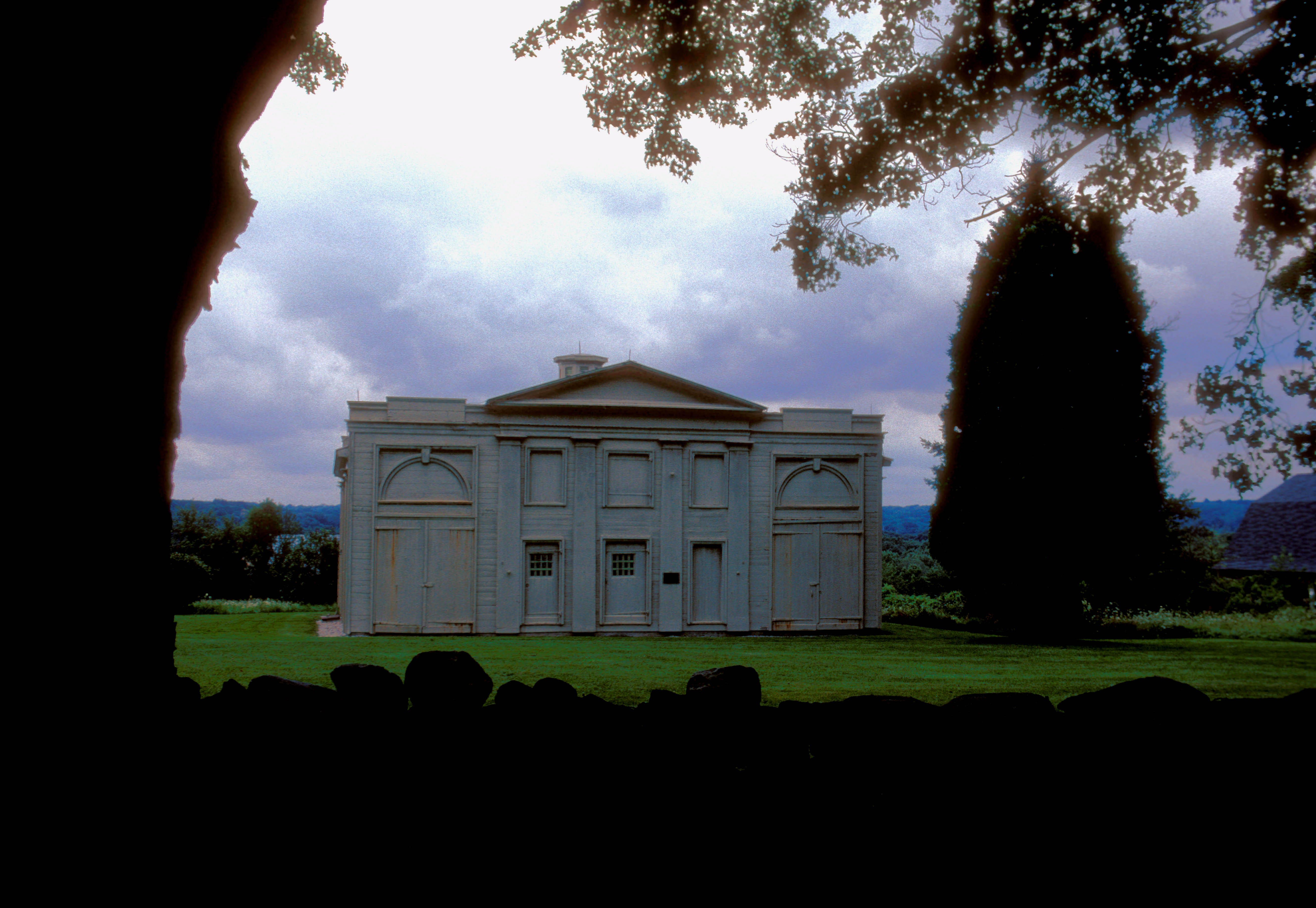 THE WADSWORTH STABLE WAS ORIGINALLY LOCATED IN DOWNTOWN HARTFORD AND WAS PART OF THE WADSWORTH ESTATE. ON SEPTEMBER 20, 1780, JEREMIAH WADSWORTH HOSTED THE FIRST MEETING BETWEEN WASHINGTON AND ROCHAMBEAU AT HIS HARTFORD MANSION. DURING THIS MEETING WASHINGTON’S HORSES WERE HOUSED IN THE WADSWORTH STABLE. IT IS PART OF THE LEBANON GREEN NATIONAL HISTORIC DISTRICT